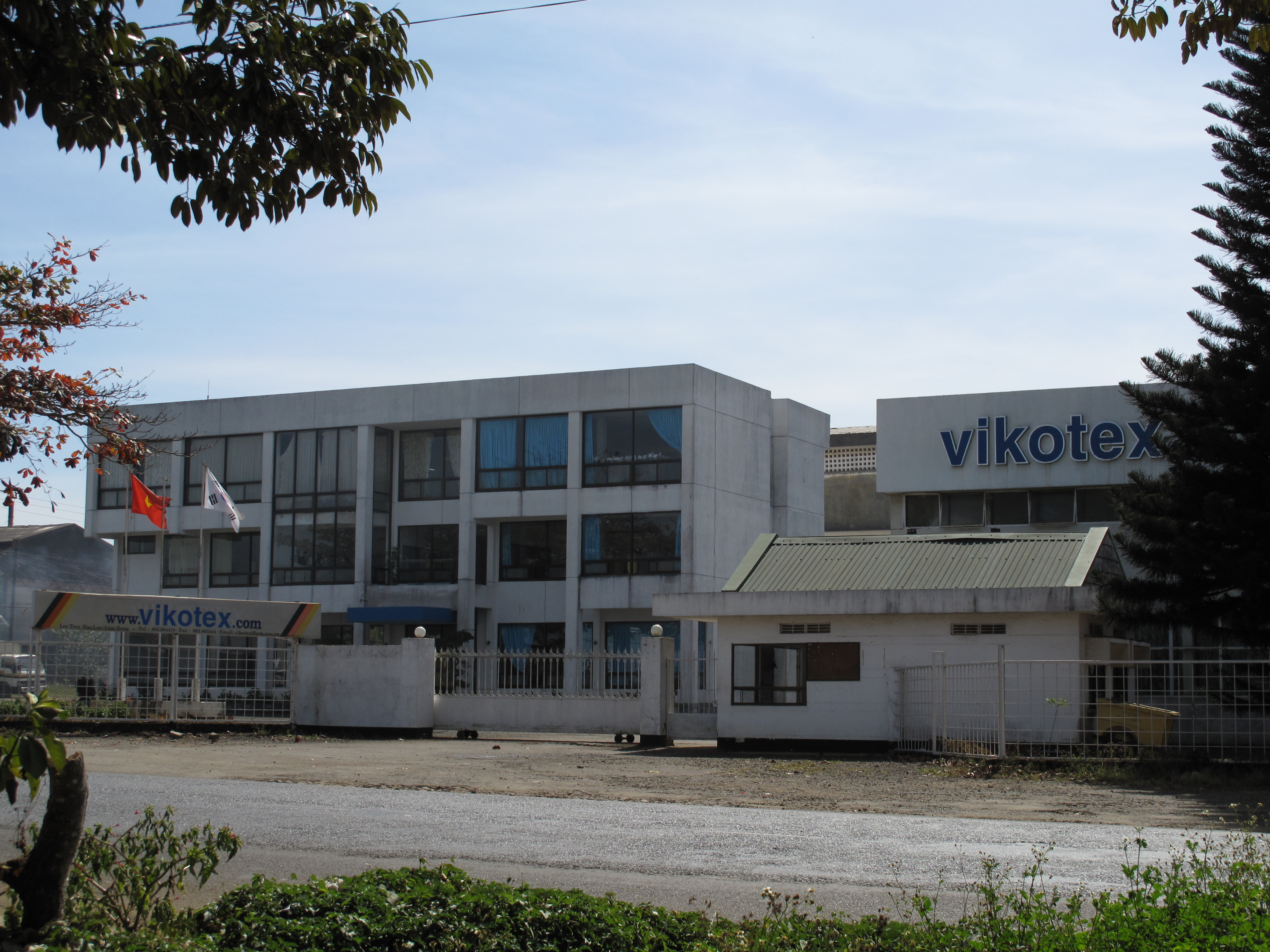 Vikotex Factory, Tran Phu Street, Bao Loc Town, Lam Dong. Shot with Canon PS G10.